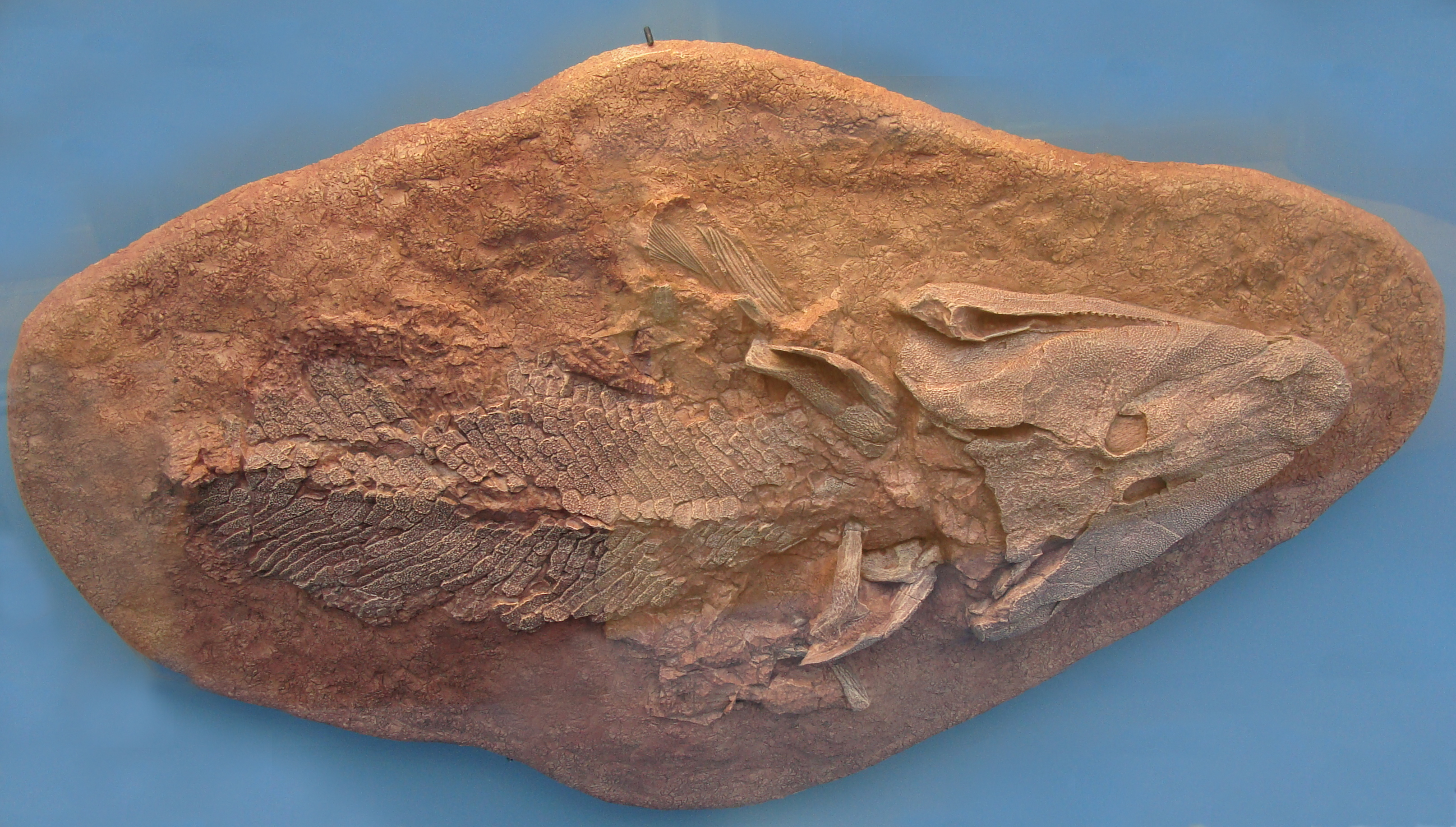 Tiktaalik roseae in the Royal Belgian Institute of Natural Sciences.